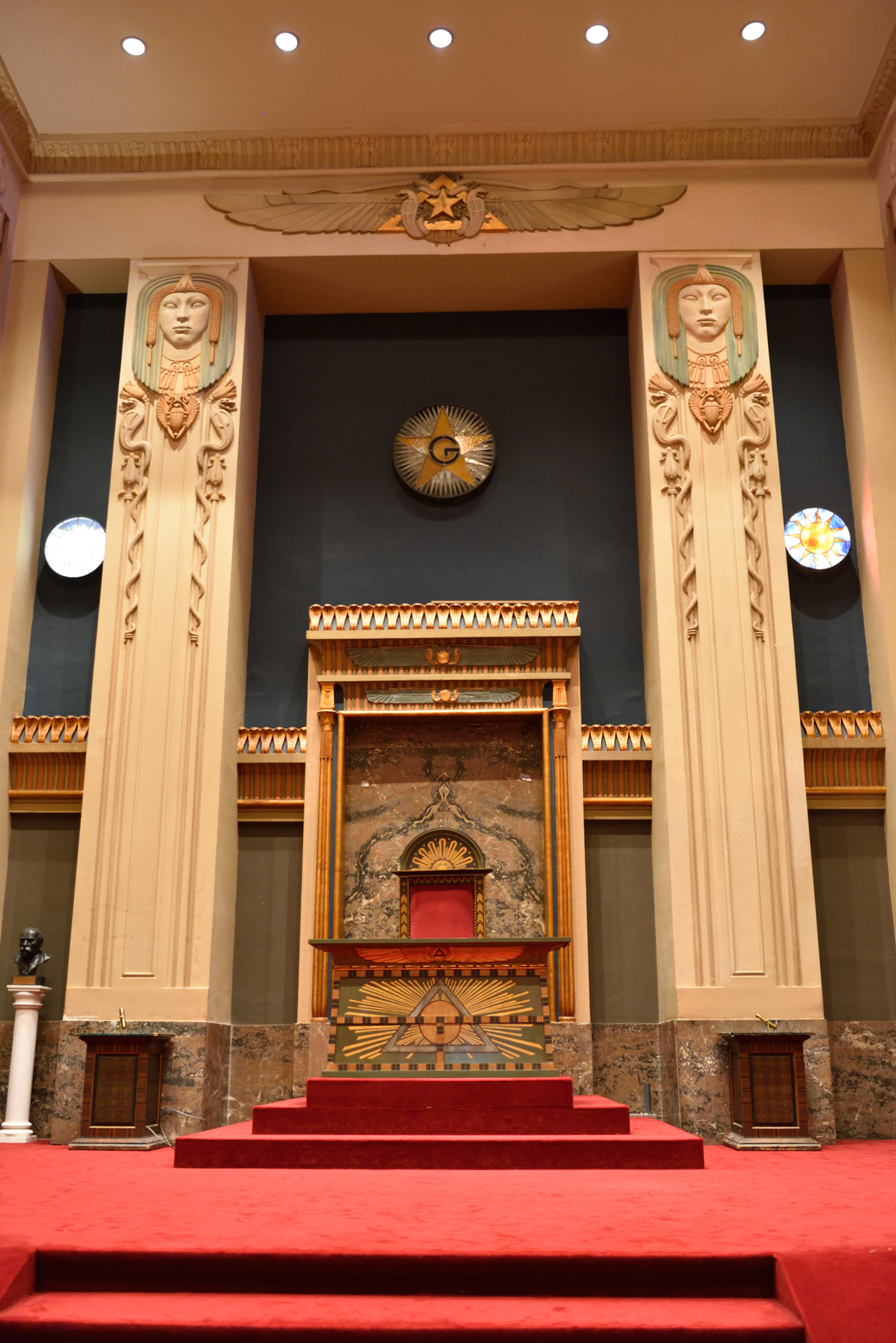 Altar at a Freemasonry loge in Brussels